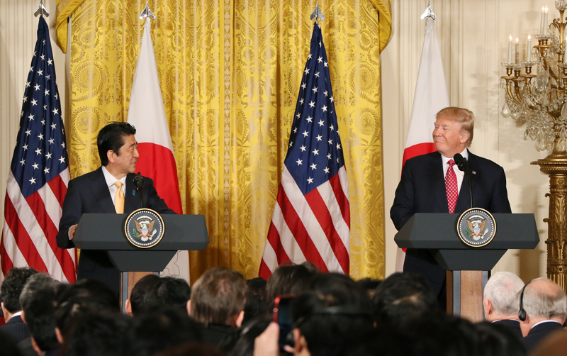 Prime Minister Shinzō Abe and President Donald Trump holding a Joint Press Conference.